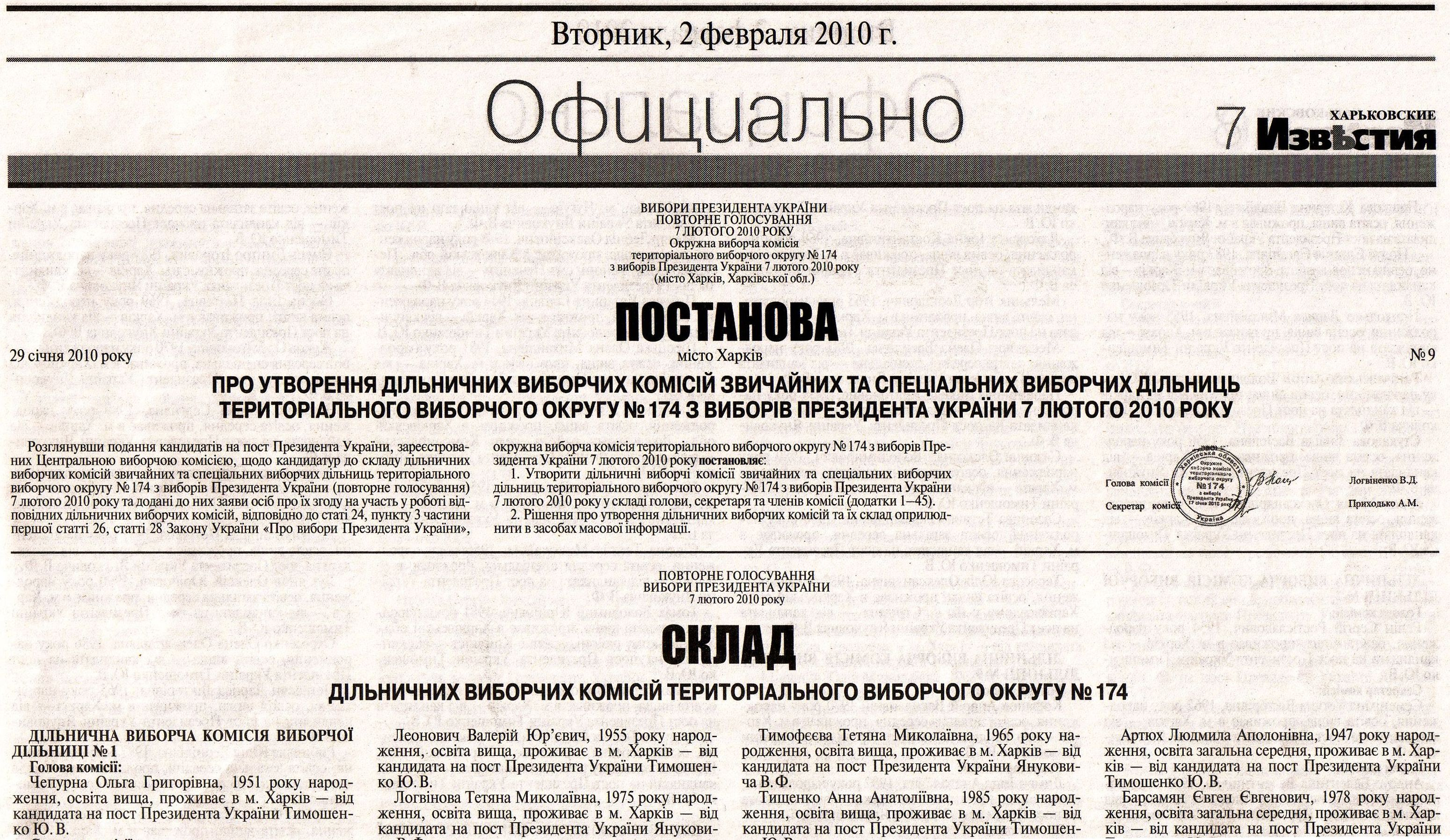 7 febr. Presidential election of Ukraine, 2010 in Kharkov City.